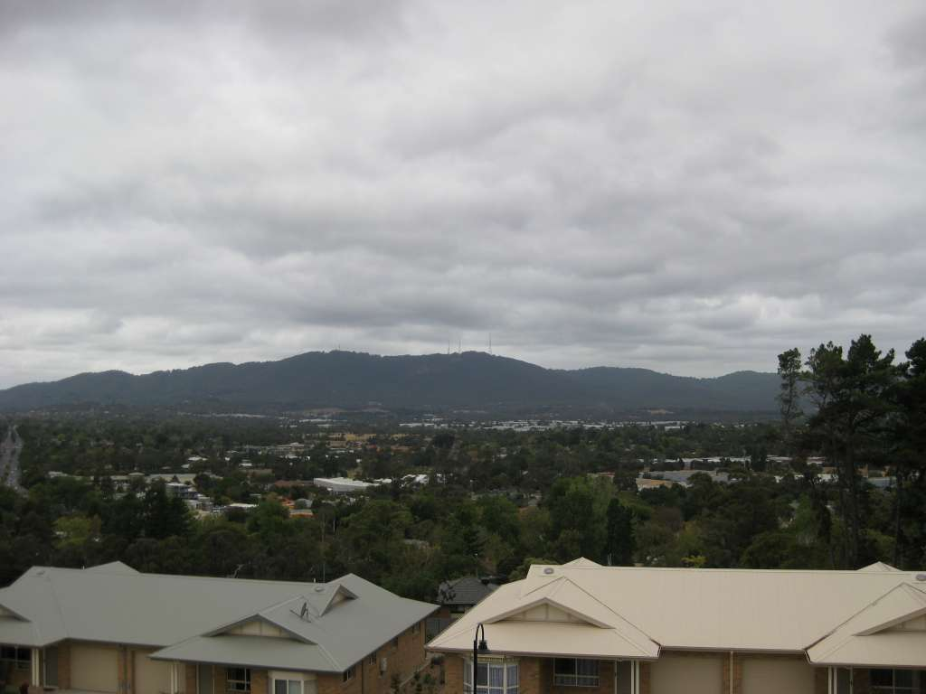 View of Croydon and Mount Dandenong from atop Aveo Mingarra Retirement facility.